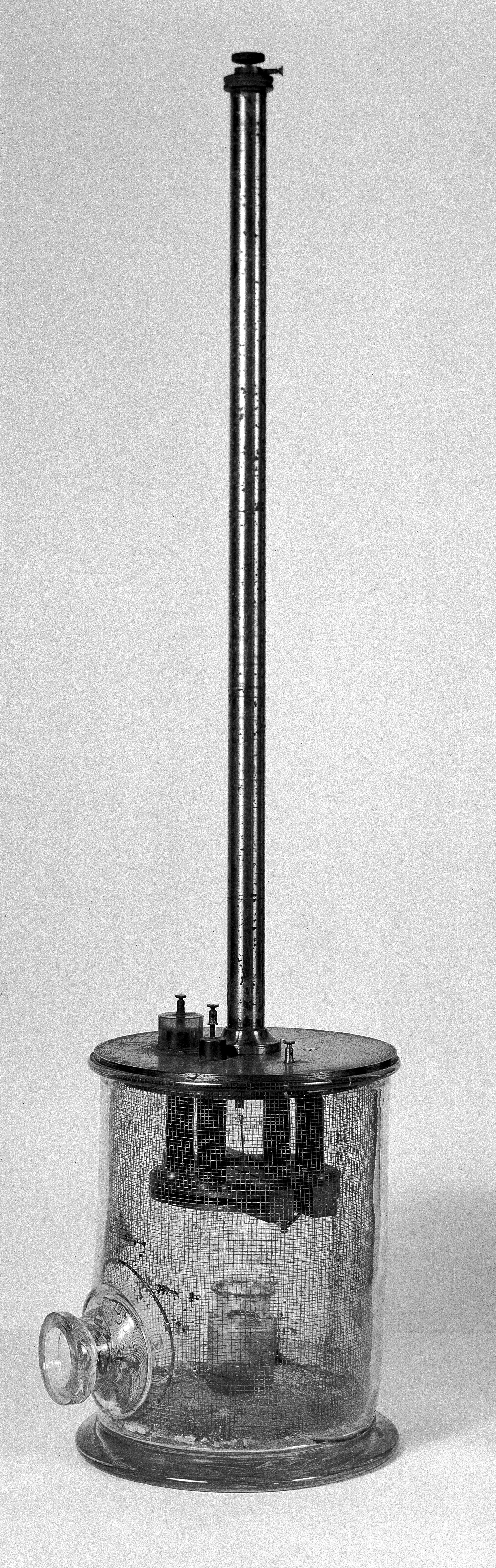 Electrometer (quadrant type) constructed by Pierre Curie and used by both Marie and Pierre Curie. Wellcome Images Keywords: Pierre Curie; Marie Curie; Radiology